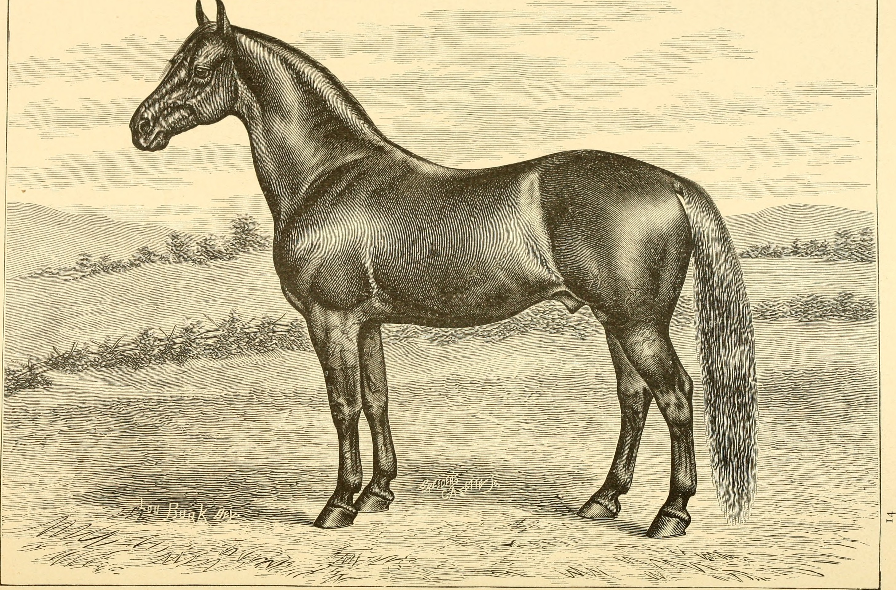 The trotting horse Herod Title: The breeds of live stock, and the principles of heredity .. Year: 1887 (1880s) Authors: Sanders, James Harvey, 1832-1899. (from old catalog) Subjects: Livestock Publisher: Chicago, J. H. Sanders publishing company Text Appearing Before Image: TROTTING HORSE HEROD. Color, black; foaled 1866; got by King Herod, son of ShermanBlack Hawk; dam by Green Mountain Boy, son of Vermont BlackHawk; 2d dam by Gifford Morgan. Bred by James Brooks, Ossian,la.; owned by M. T. Grattan, Preston, Minn. Engraved after asketch from life by Burk, taken when the horse was in his twentiethyear. This horse, when eighteen years old, made a public trottingrecord of 2:24^, and is undoubtedly one of the best, if not thevery best, living representatives of the Morgan trotting family. Asthe Sherman Morgan mentioned above was a son of Vermont BlackHawk, the most famous Morgan stallion of his day, and GreenMountain Boy was also by the same sire, and Herods second damby Gifford Morgan, it will be seen that he is strongly in-bred tothis popular and valuable family of trotting horses. Vermont BlackHawk and Gifford Morgan were both grandsons of Justin Morgan,the founder of the Morgan family of horses. (io4) Text Appearing After Image: TROTTING MARE TRINKET. Color, bay; foaled 1875; got by Princeps, son of Woodford Mam-brino; dam Ouida by Rysdyks Hambletonian; 2d dam MorningGlory by imp. Consternation. Bred by R. S. Veech, Louisville, Ky.;owned by J. W. Shaw, New York city. Engraved after a sketchfrom life by Burk, showing the mare at seven years old. Trinketas a four-year-old made a trotting record of a mile in 2:193^, whichup to that time had never been equaled by a horse of her age. (106)